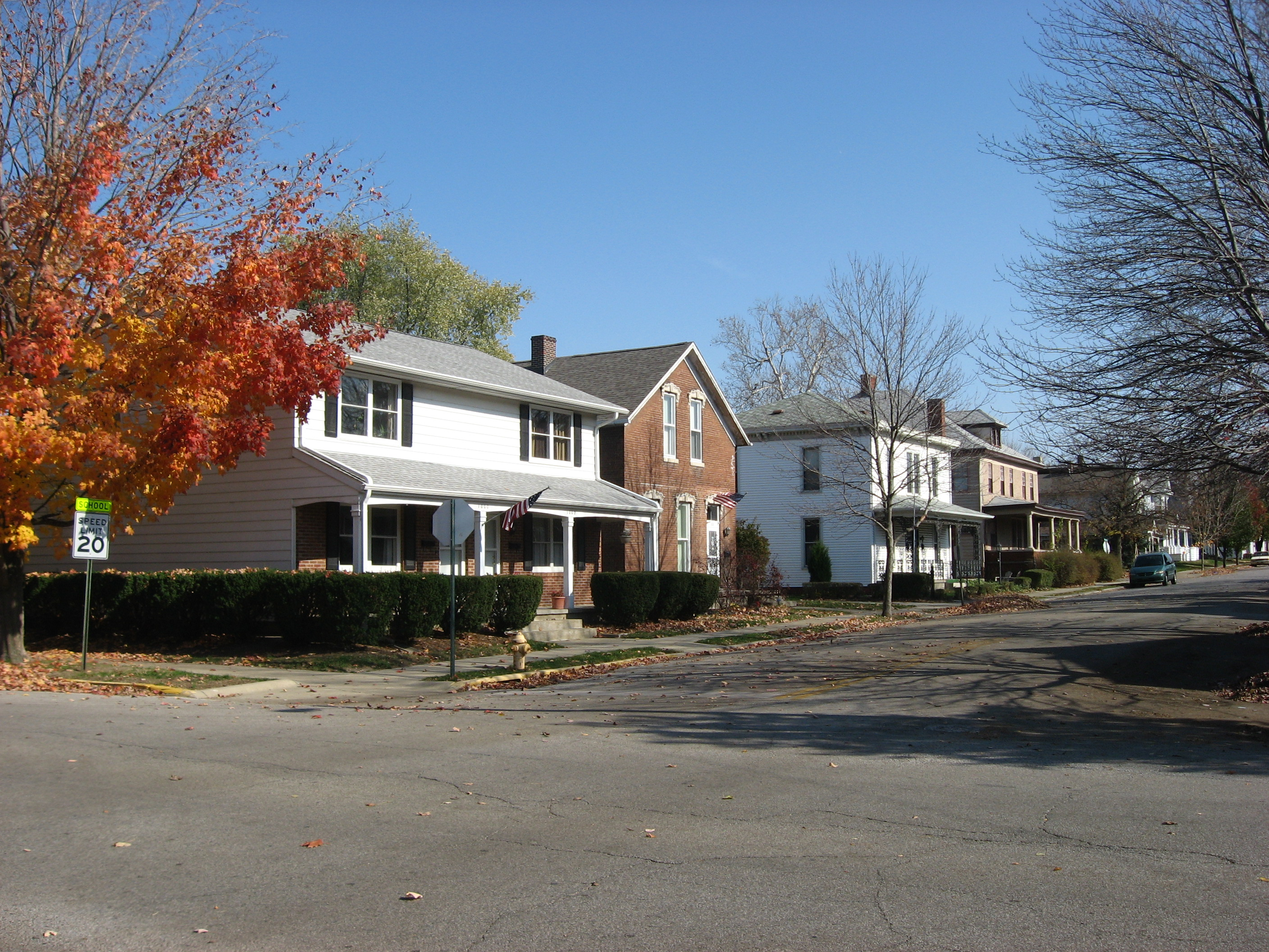 Houses on the northern side of the 1100 block of Brown Street in Lafayette, Indiana, United States. This area is part of the Jefferson Historic District, a historic district that is listed on the National Register of Historic Places.